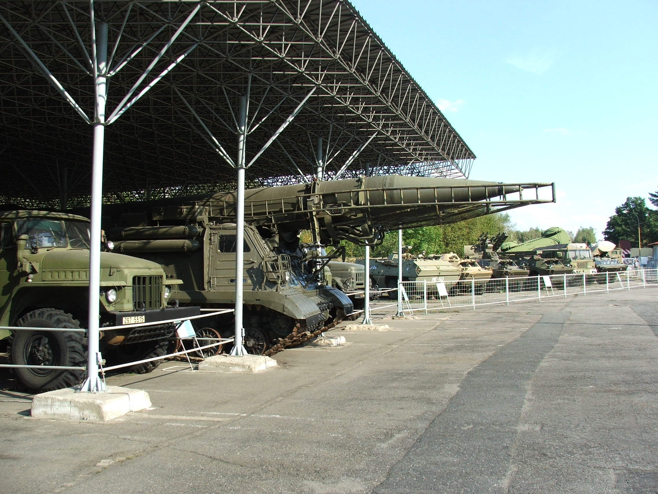 Military Museum Lešany, Czechia, outdoor exhibition